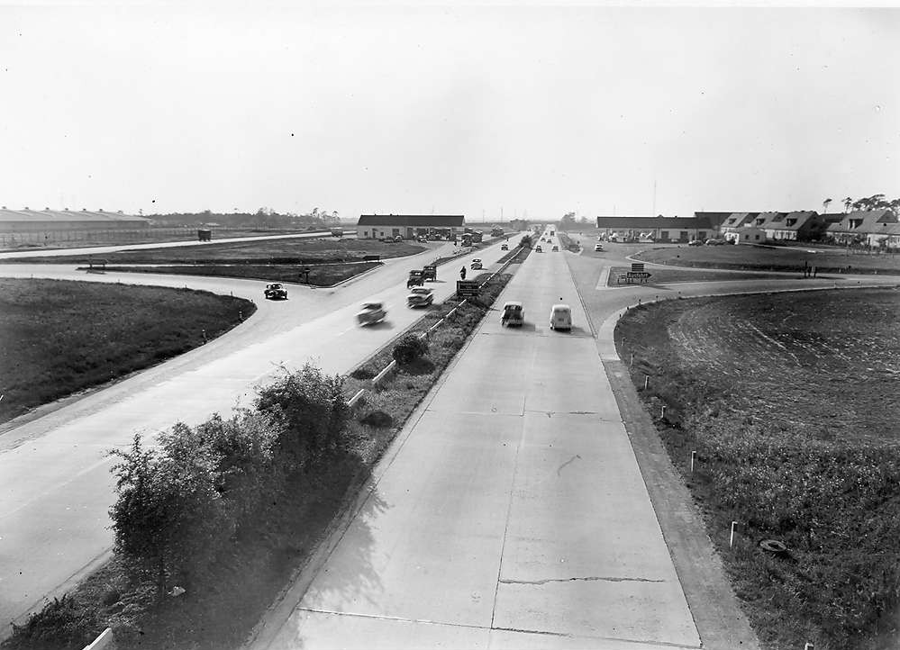 Autobahn connection Mannheim-Seckenheim, Autobahn Mannheim-Heidelberg (now A 656), view direction Mannheim with former rest area, 1951 (reprography: 1992-12-18)